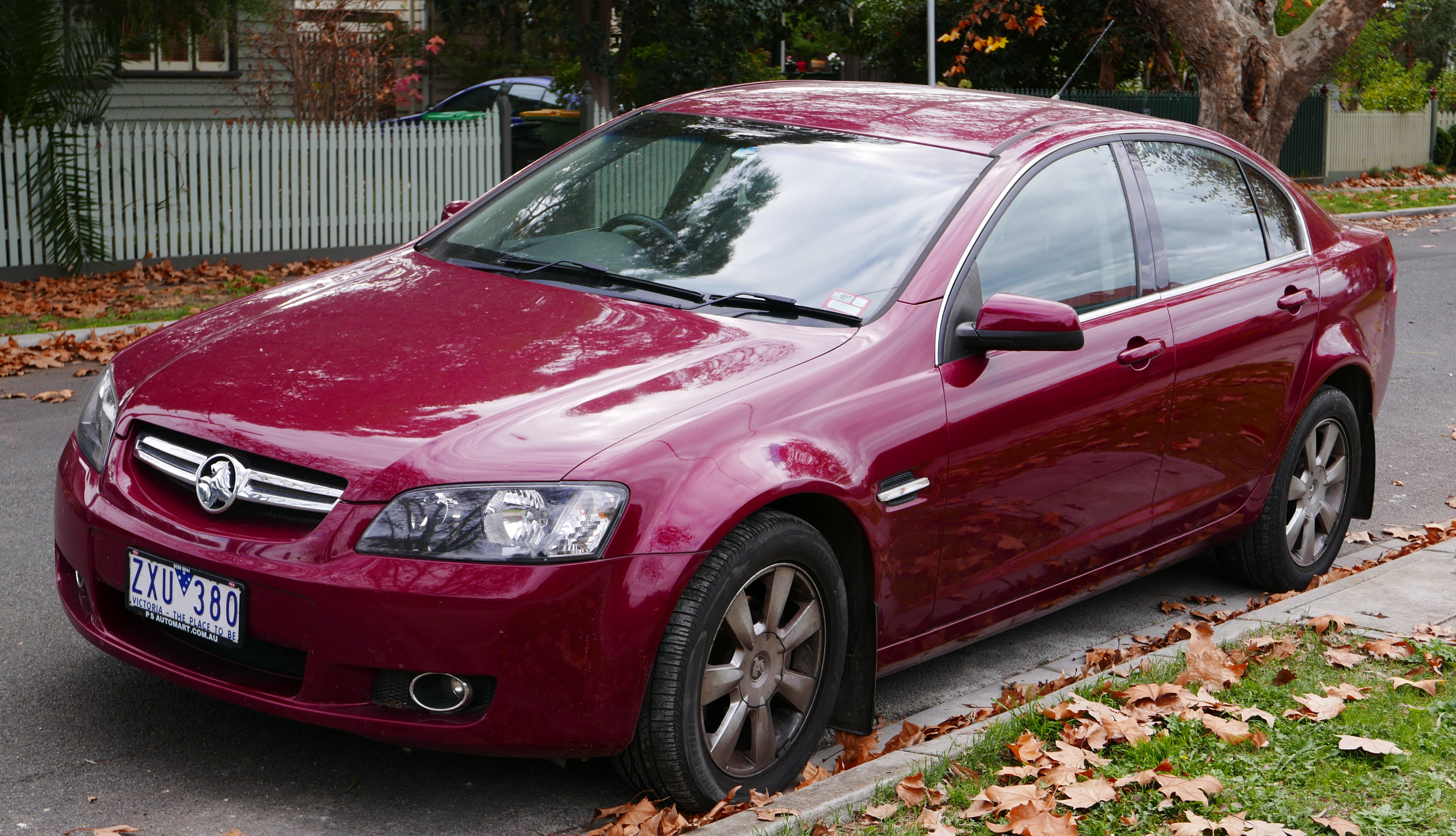 2009 Holden Berlina (VE MY09.5) sedan. Photographed in Northcote, Victoria, Australia. Vehicle registration enquiry resultsJurisdictionVictoriaRegistrationZXU380Chassis code6G1EL55779L320312Engine codeLY7090340052Compliance date2009-02Year of manufacture2009